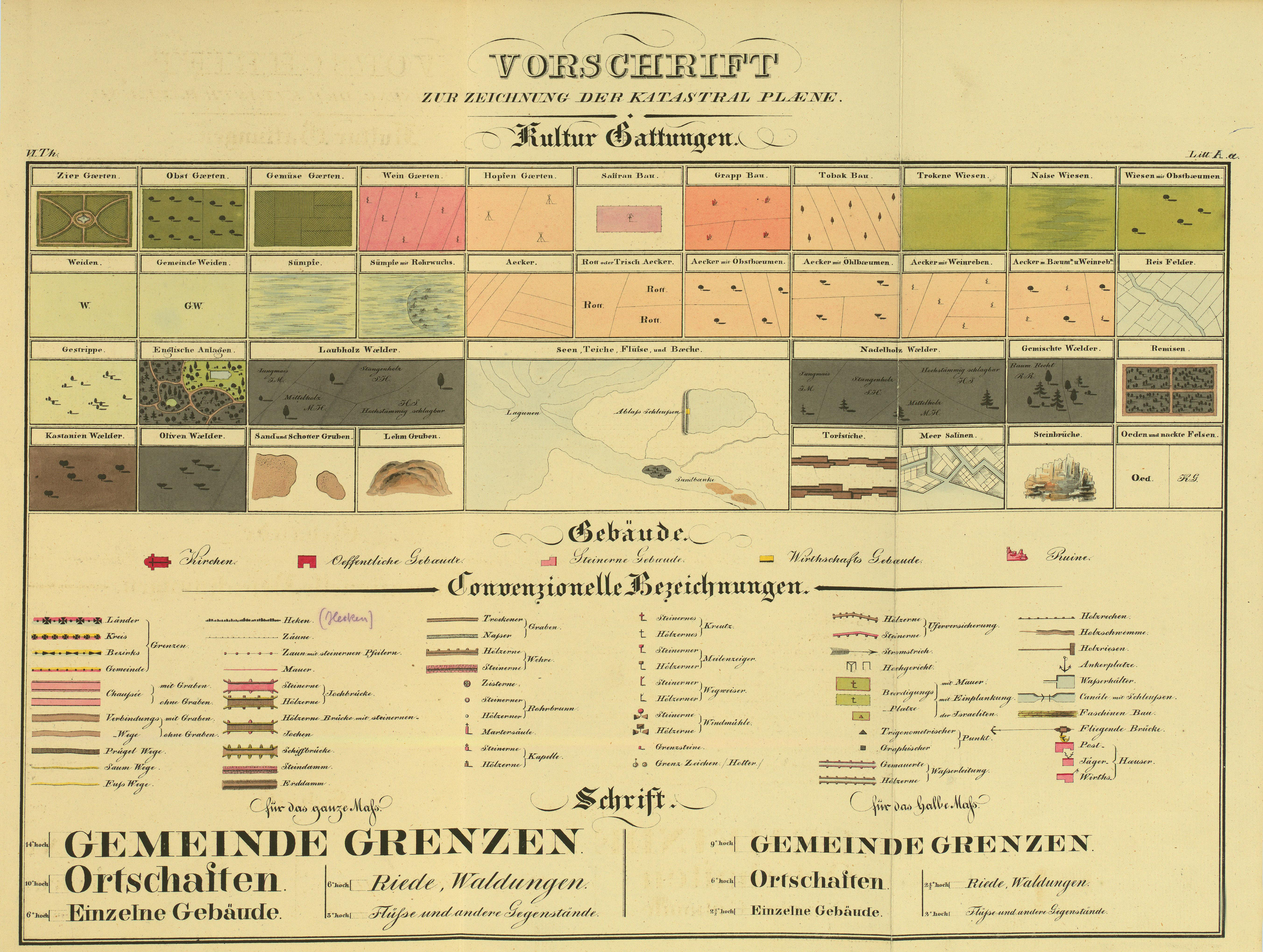 Legend for the maps of the Franciscan Cadastral Maps of the Austro-Hungarian Empire